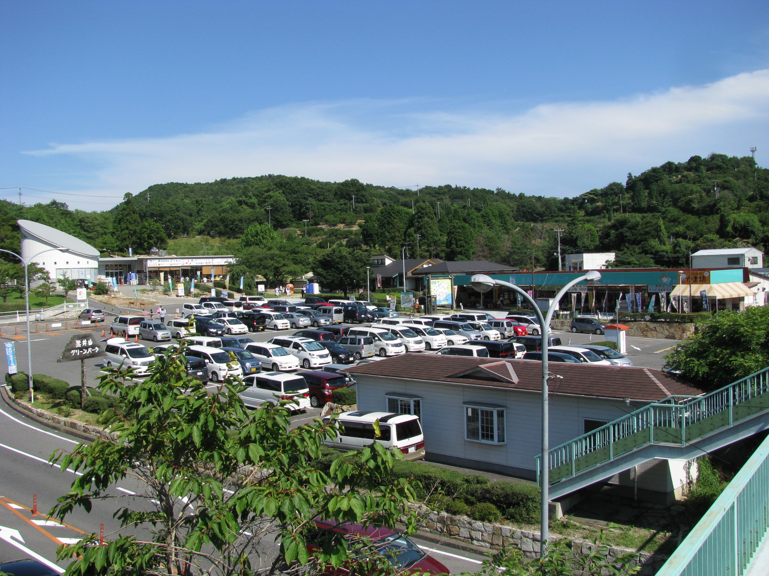 The Michi-no-eki Kuroisan green park of Okayama Prefectural Route 397 (Okayama Blue Line). This place is Setouchi, Okayama, Okayama, Japan.